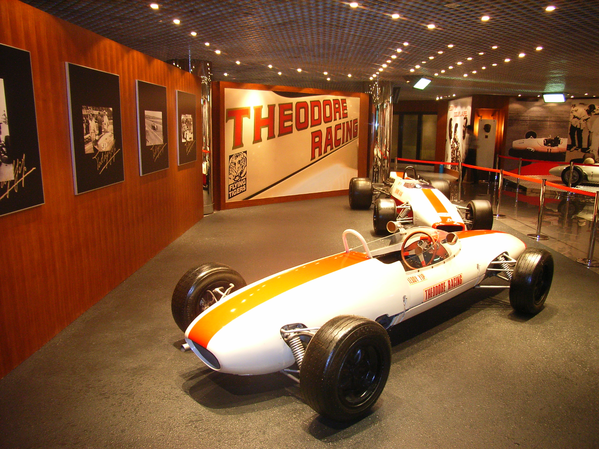 The Grand Prix Museum in Macau 澳門大賽車博物館 在 新口岸區 高美士街 The car in the background is an Elfin Type 600.